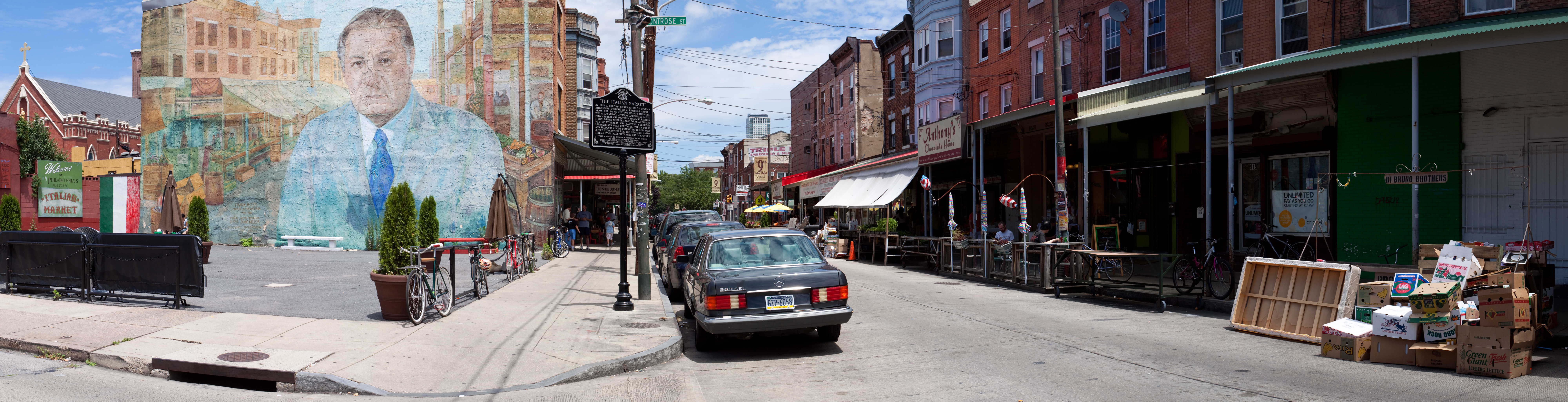 The historic Italian Market in Philadelphia (PA), United States of America. The resolution of the original photograph is 12000*2975.